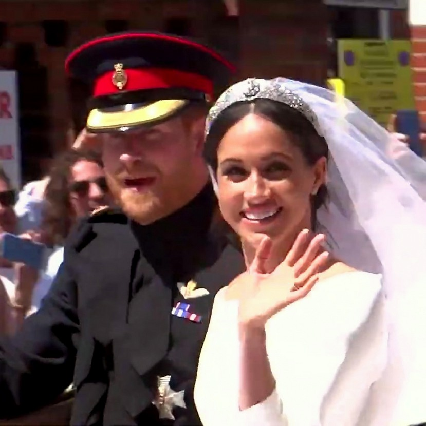 Prince Harry and his now wife Meghan have taken part in an open-top carriage procession through the streets of the town of Windsor. The couple earlier married at St George’s Chapel which was watched by millions of people all over the world.